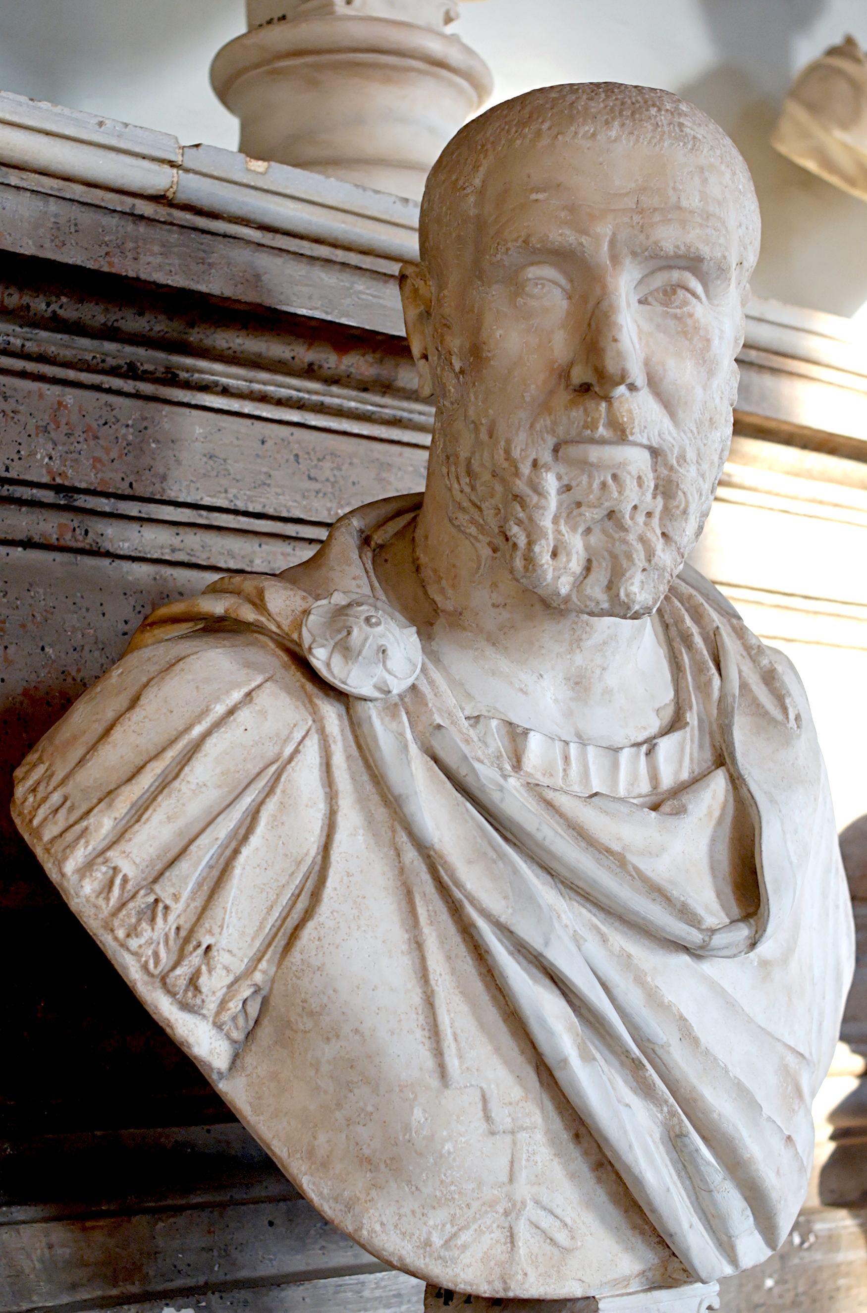 Bust of Emperor Pupienus. Marble, Roman artwork, 238 CE.